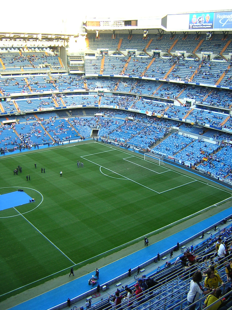 Final game of the Copa del Rey, in Bernabeu stadium, Madrid, Spain. Real Zaragoza vs RCD Español